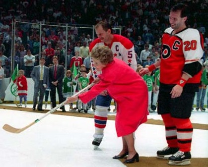 "Nancy Reagan shooting a hockey puck while attending 'Just Say No' Night for the National Hockey League NHL at The Capital Center in Washington DC. 3/25/88." Photo caption is from a Nancy Reagan page on the Ronald Reagan Presidential Library website.